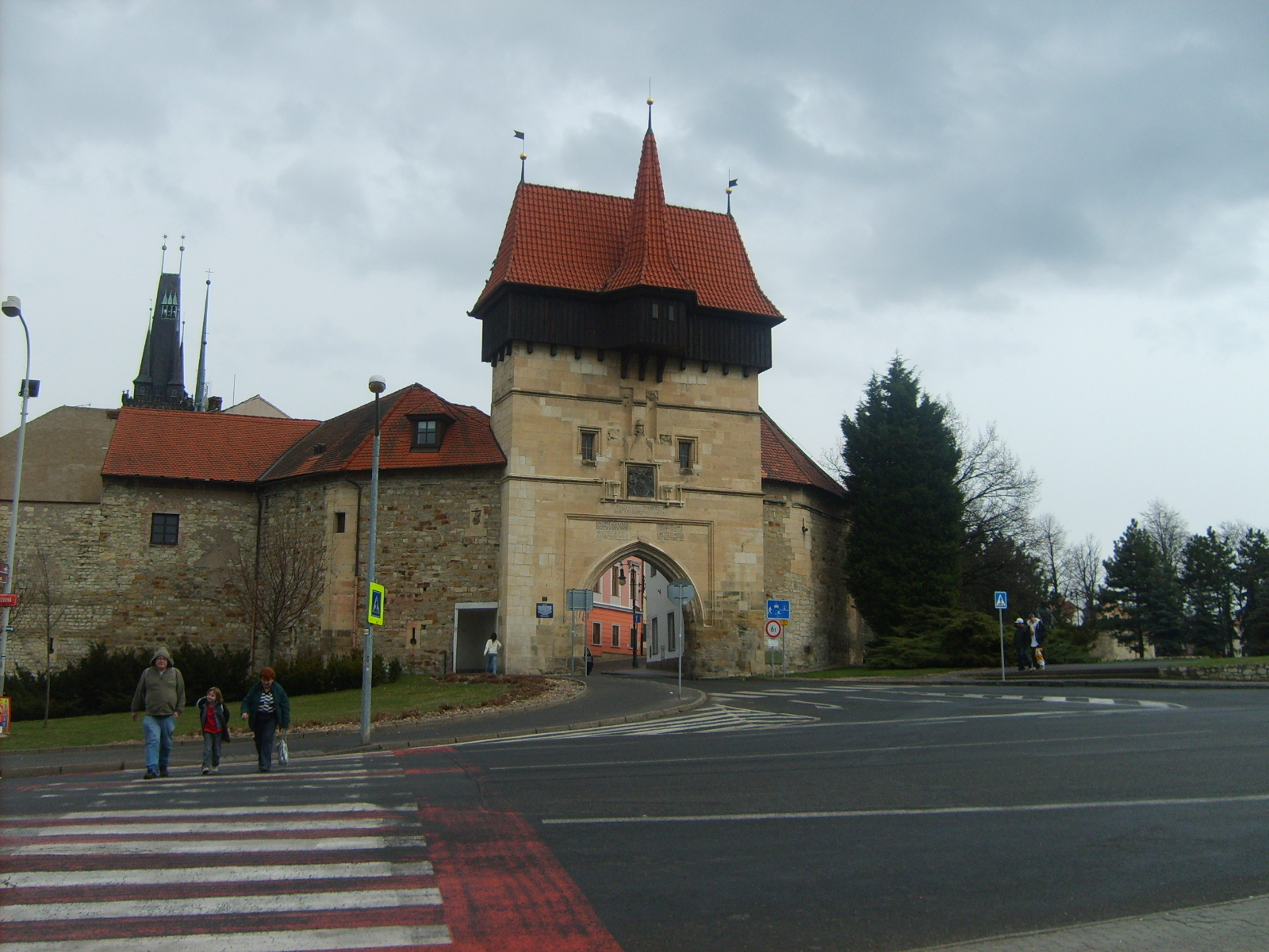 Late gothic Žatec gate, build in 1500 in Louny, Czech Republic Česky: Pozdně gotická Žatecká brána z roku 1500 v Lounech.